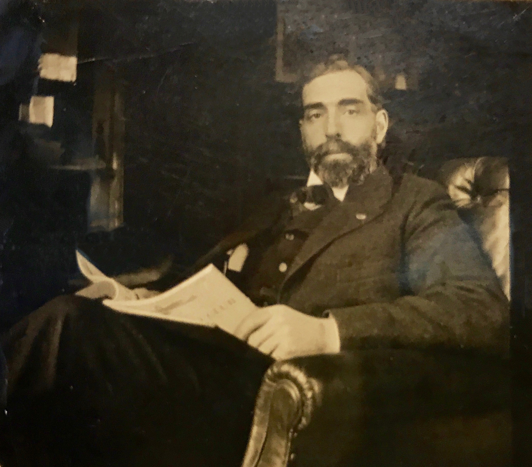 Augustus Post reading at home circa 1920.